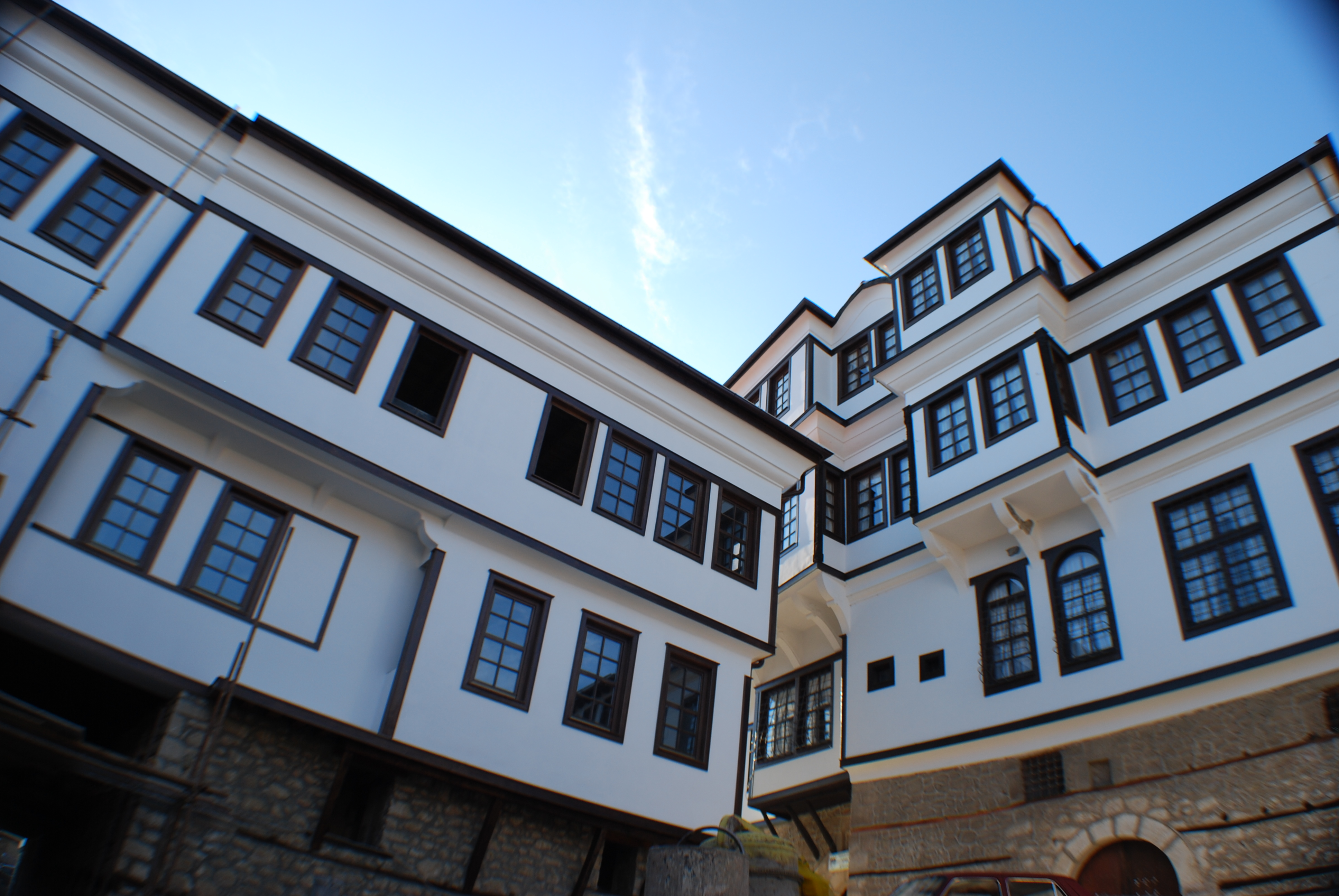 The Robevi house in Ohrid, one of the most famous architectural monuments in Macedonia. It was built in its current state in 1863 - 1864 by Todor Petkov from a village Gari near Debar. Today the house is a protected monument of culture under the "Institute for protection of cultural monuments in Ohrid". Currently, in houses is the "The Archeological museum of Ohrid". More...